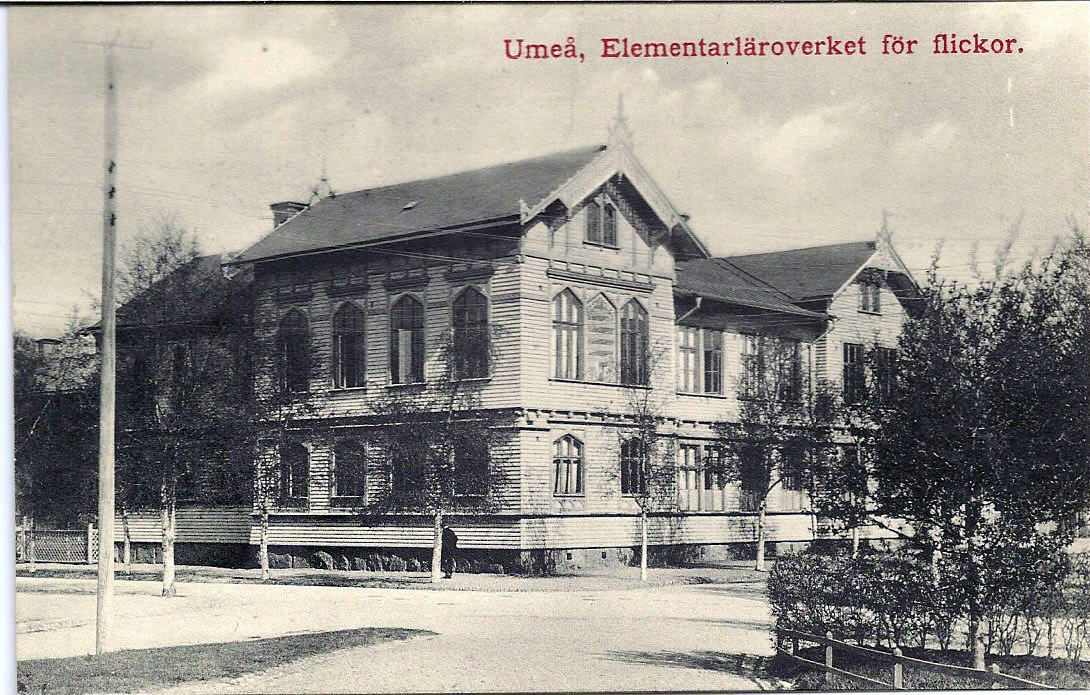 Umeå elementary school for girls. Built 1892, postcard from around 1910.